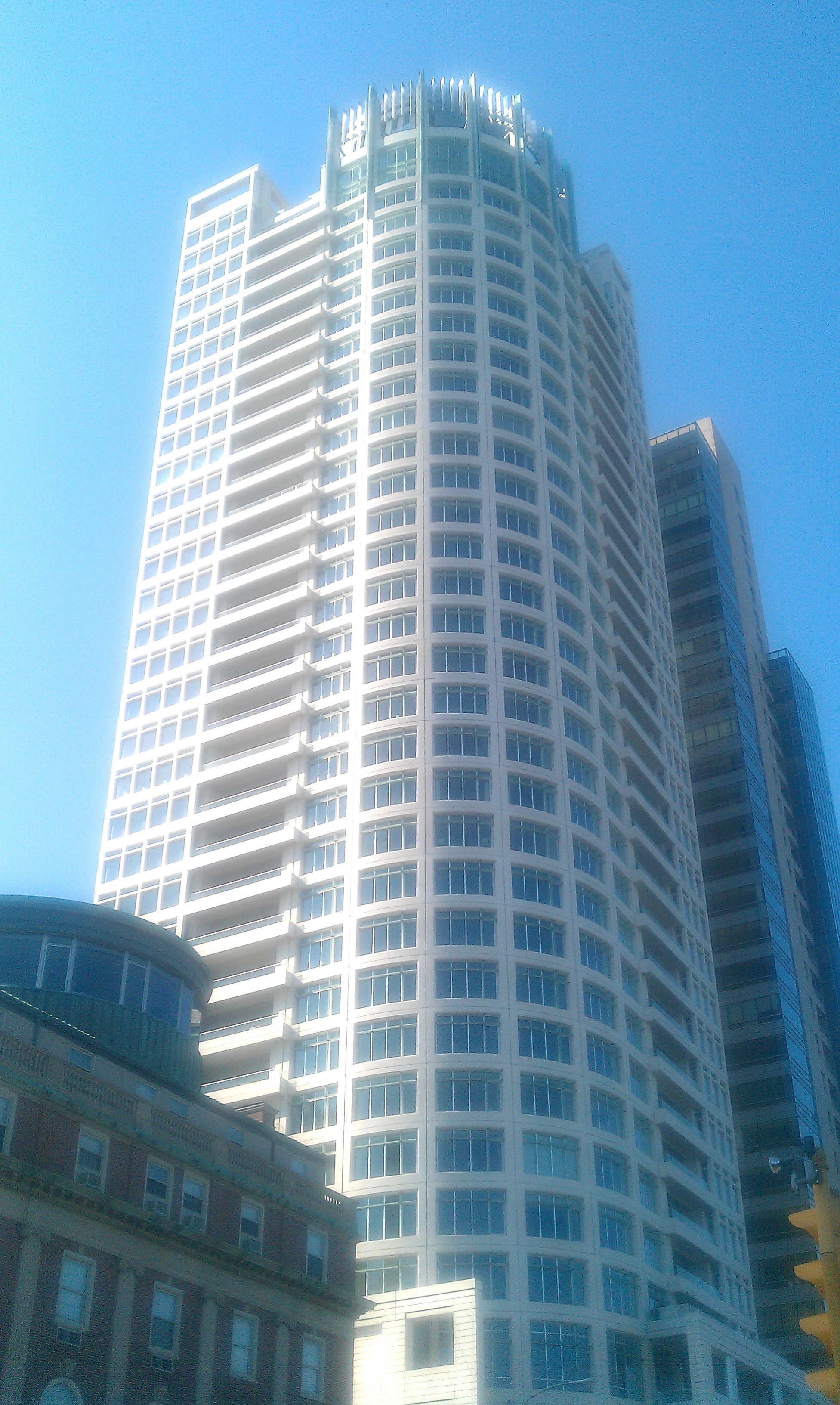 University Club Tower, Milwaukee from the southeast